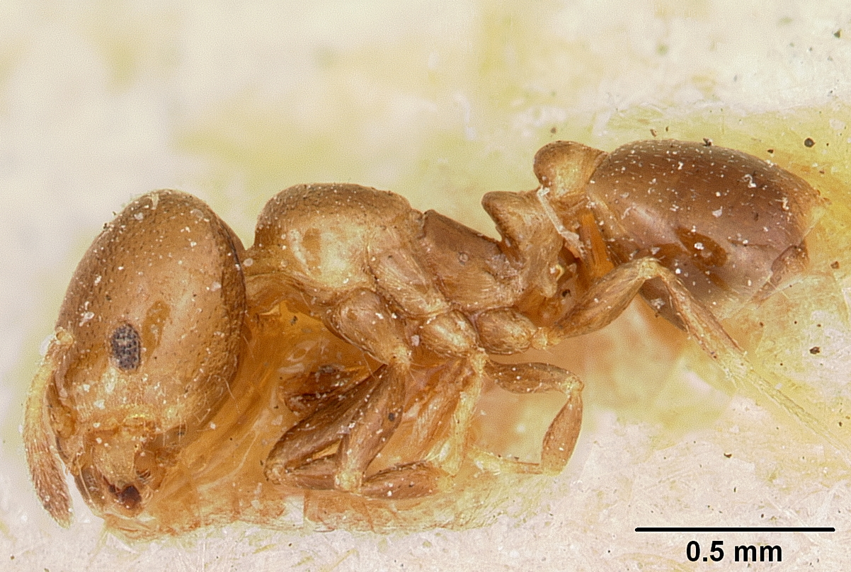 Profile view of ant Solenopsis nigella specimen casent0103217.